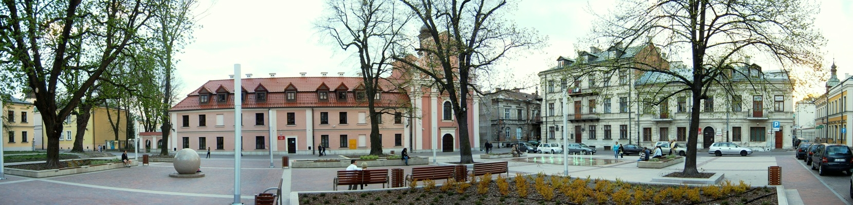 Water Market Square in Zamość